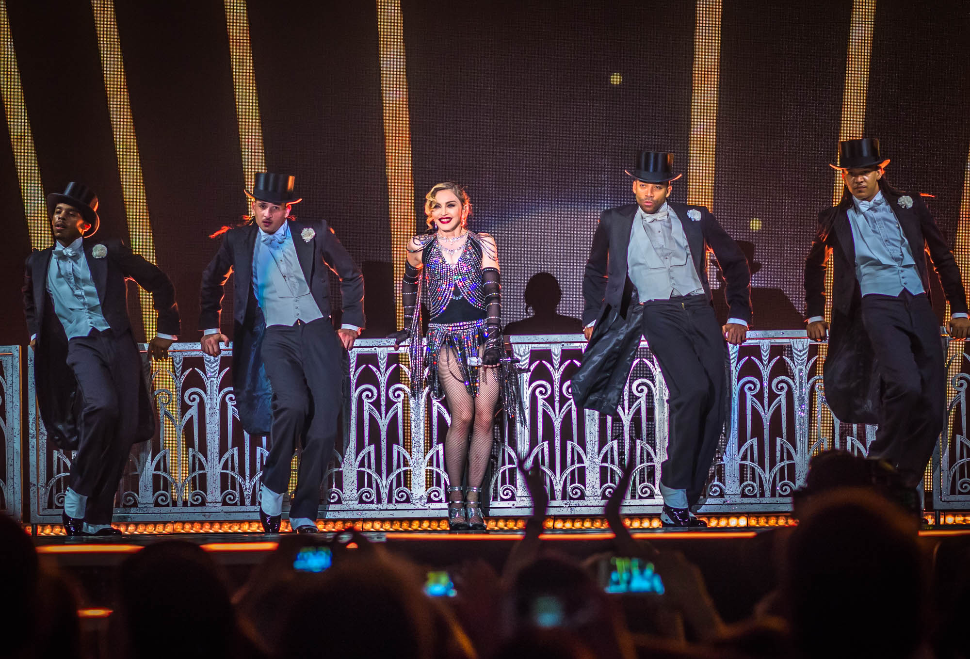 Rebel Heart Tour